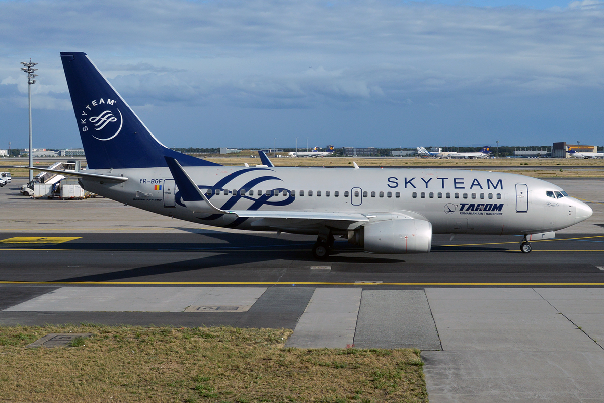 TAROM plane at Sheremetyevo International Airport northwest of Moscow